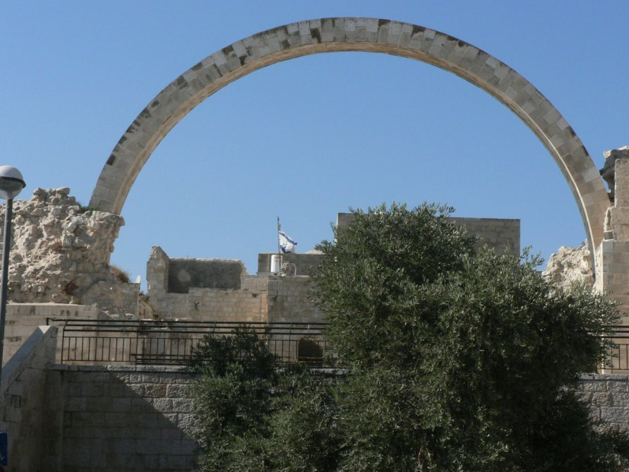 Hakurba Synagogue in Jerusalem Israel (end of 20th century)